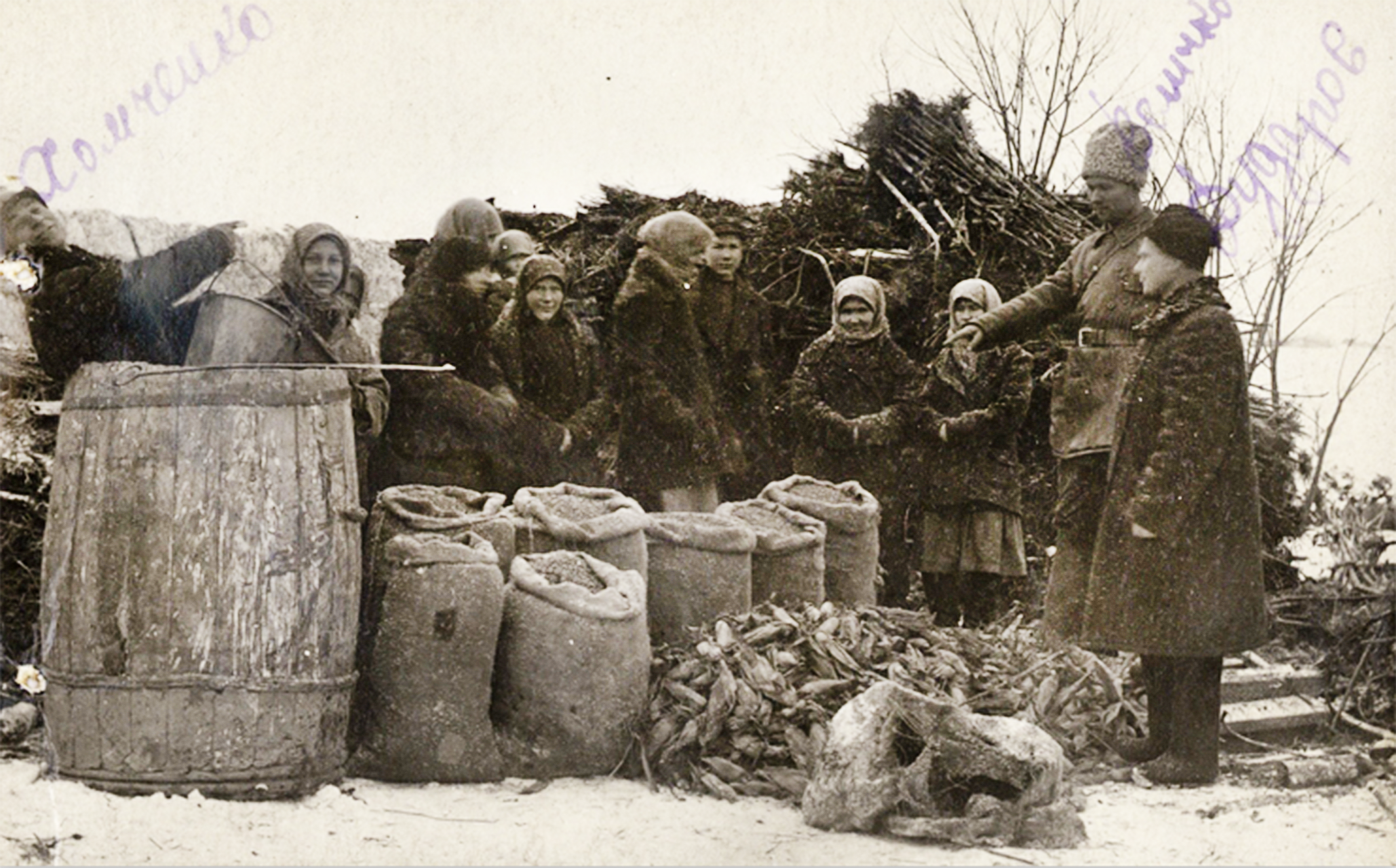 Seizure of vegetables from peasants in Novo-Krasne village in Odesa Oblast, Ukraine. November of 1932.